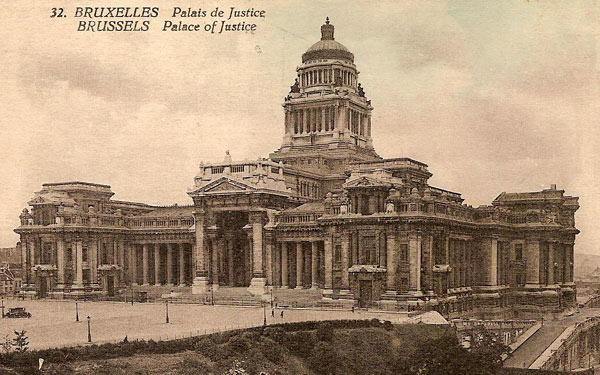 Palace of Justice in Brussels